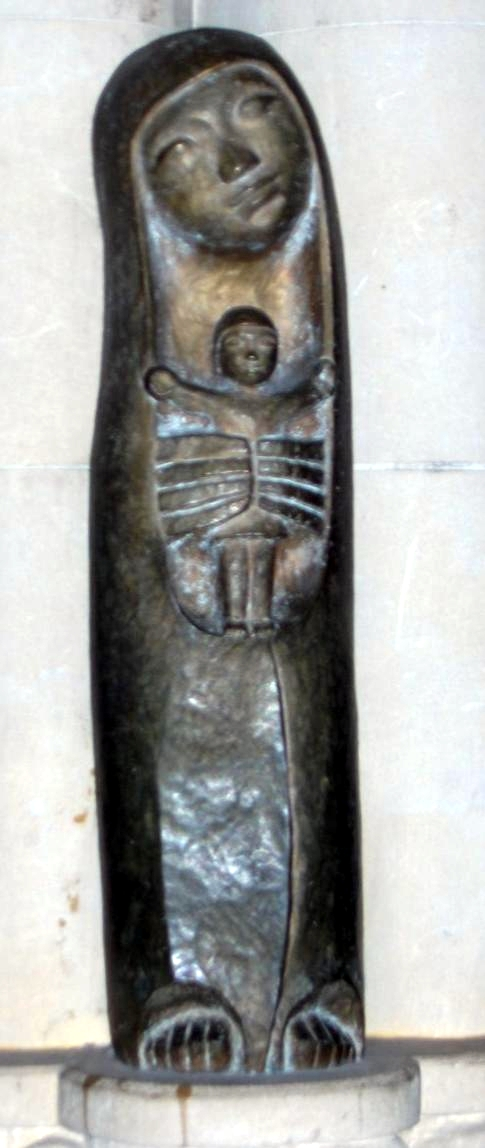 The Virgin and Child, 1991 bronze statue by Imogen Stuart, on display at Christ Church Cathedral